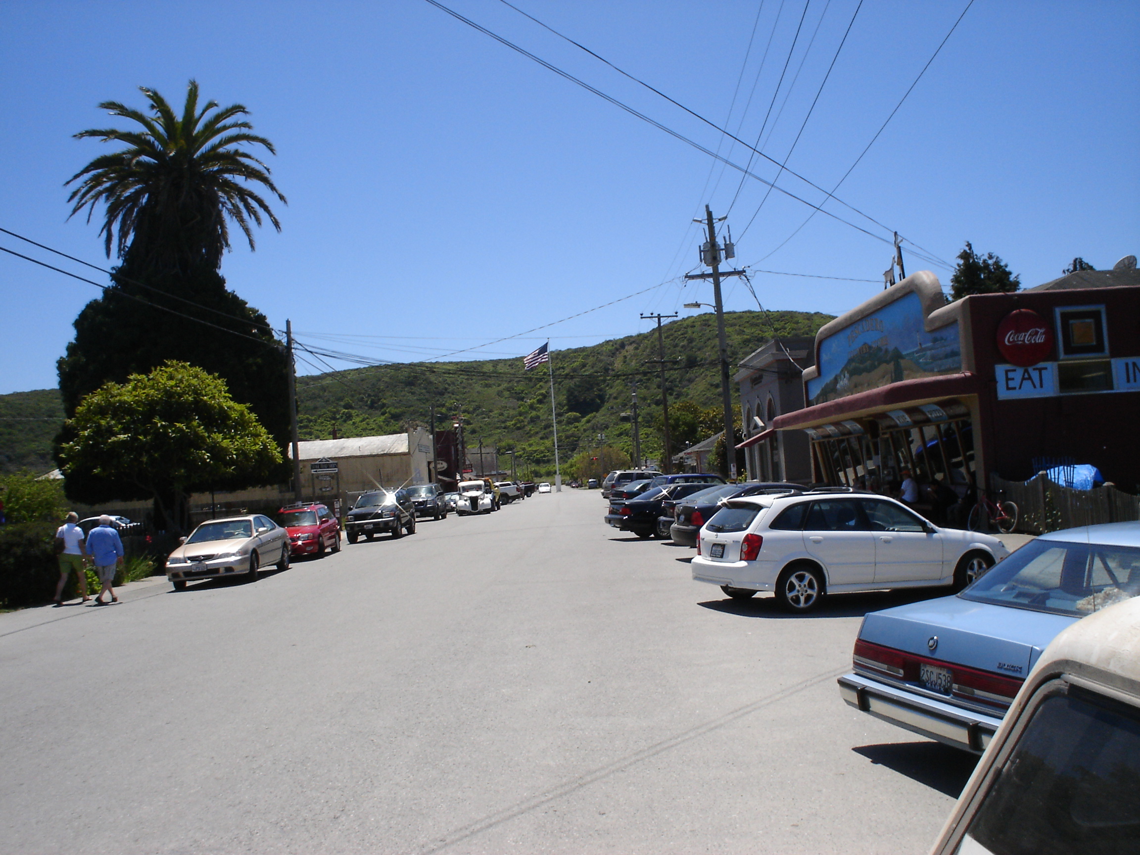 Author:Robert E. Nylund Source:Personal Photos